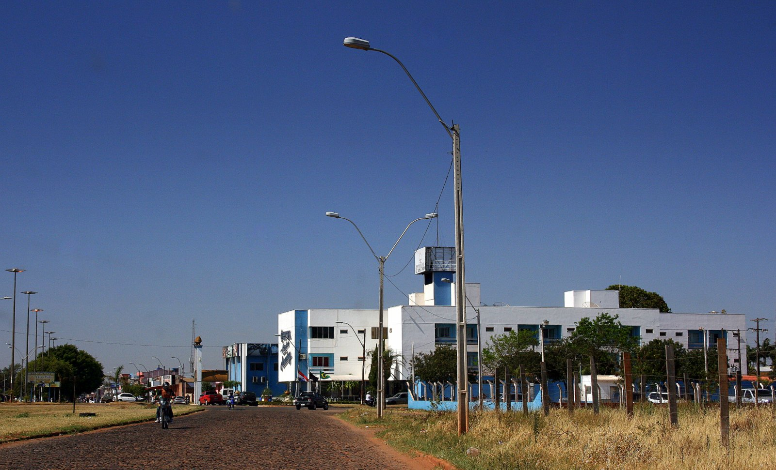 International boundary on Av. Dr. Francia